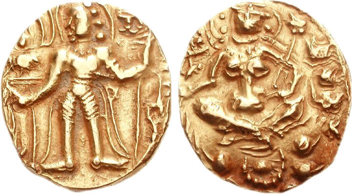 Budhagupta in Malwa Circa 476-495 CE. V Dinar (9.31 g, 12h). Archer type. Budhagupta, nimbate, standing facing, head left, holding bow in right hand, arrow in left; garuḍadhvaja to left / Lakshmi seated facing on lotus, holding diadem in her right hand, lotus in her left; tamgha to left.